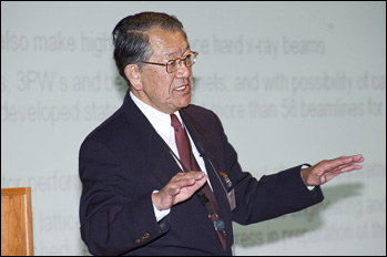 Satoshi Ozaki, Associate Director for the Accelerator Systems Division, Brookhaven National Laboratory, described the design for the massive machine at the "NSLS-II User Workshop" on 2007.